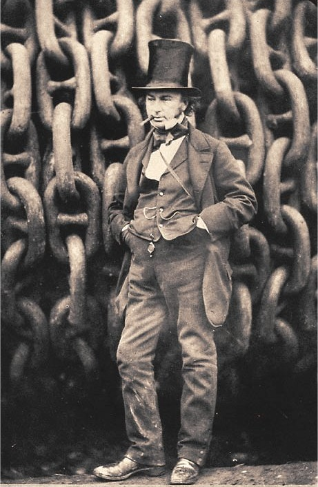 Isambard Kingdom Brunel against the launching chains of the SS Great Eastern at Millwall in 1857, photo by Robert Howlett (1831–1858).